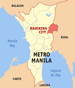 Locator map of Marikina City in Metro Manila, Philippines.